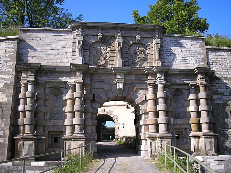 Fortress Wuelzburg near Weissenburg, Middle Franconia, Germany. / The gate.